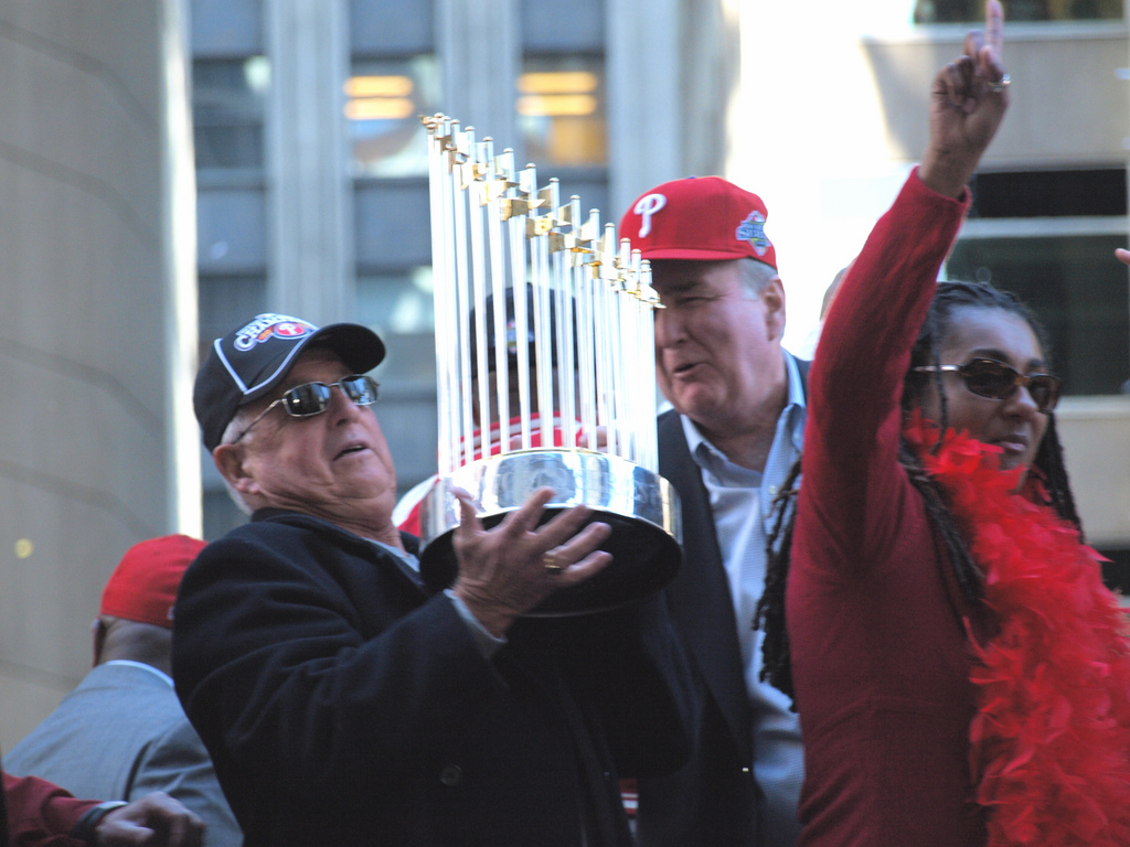 GM Pat Gillick holds it, President David Montgomery looks on.